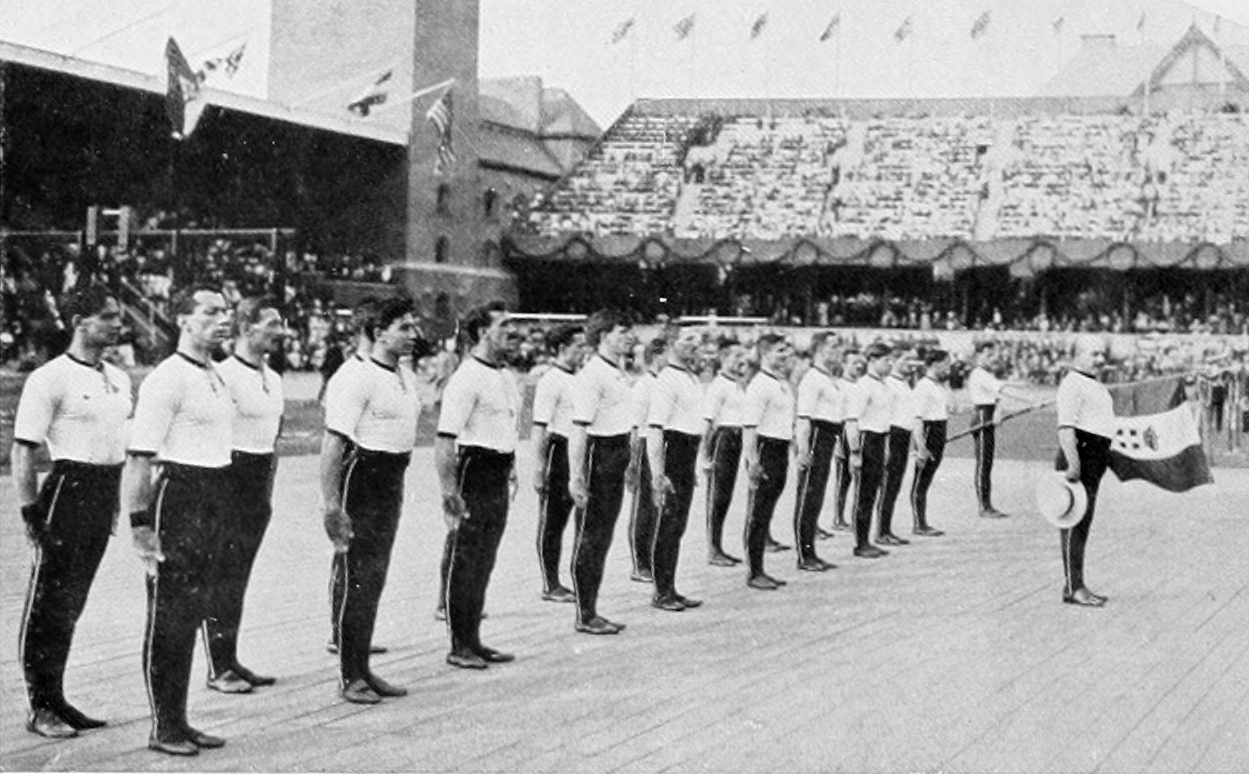 Italian gymnastics team at the 1912 Summer Olympics